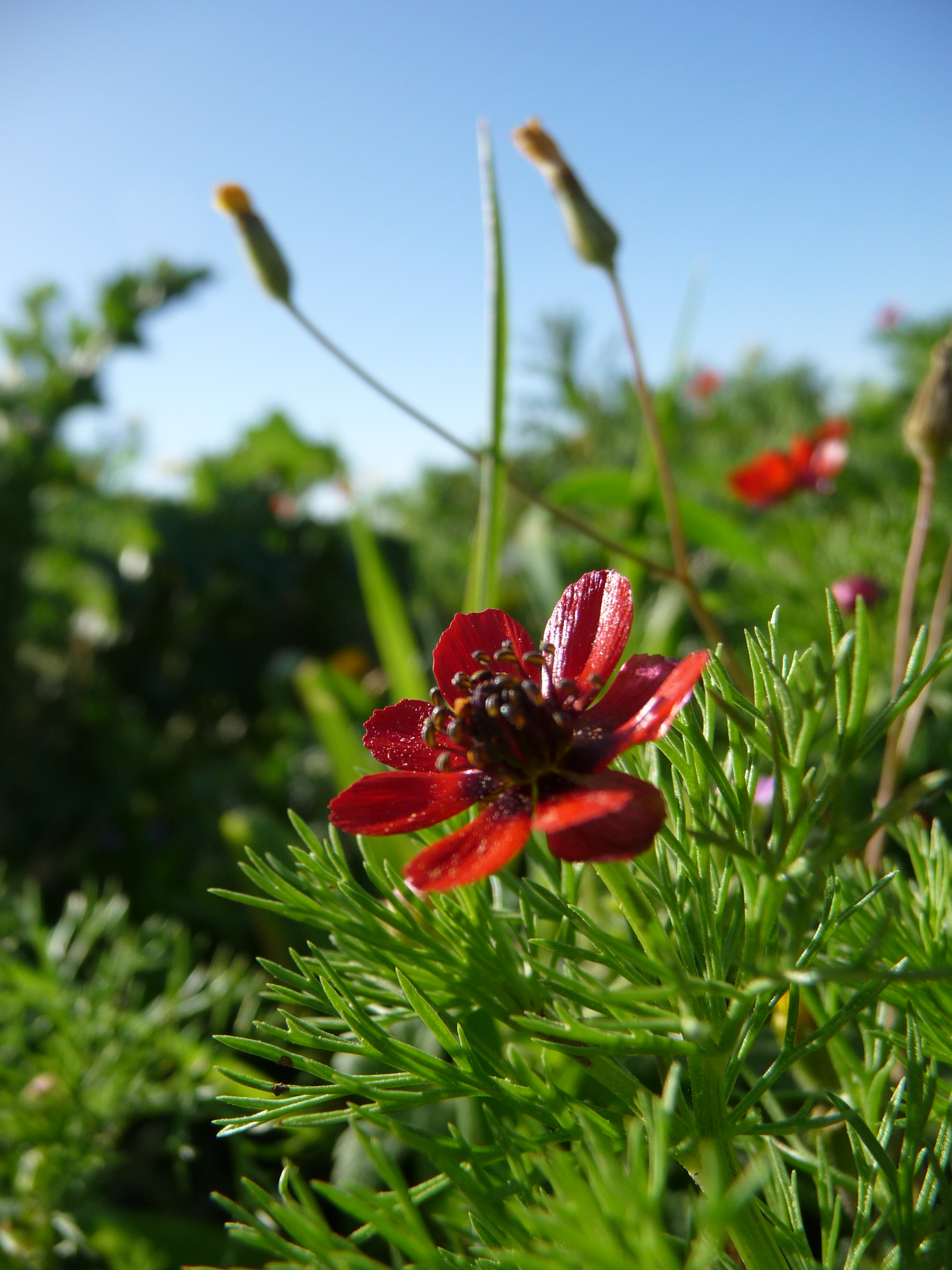 Beit Oren is a kibbutz in northern Israel. It falls under the jurisdiction of Hof HaCarmel Regional Council.